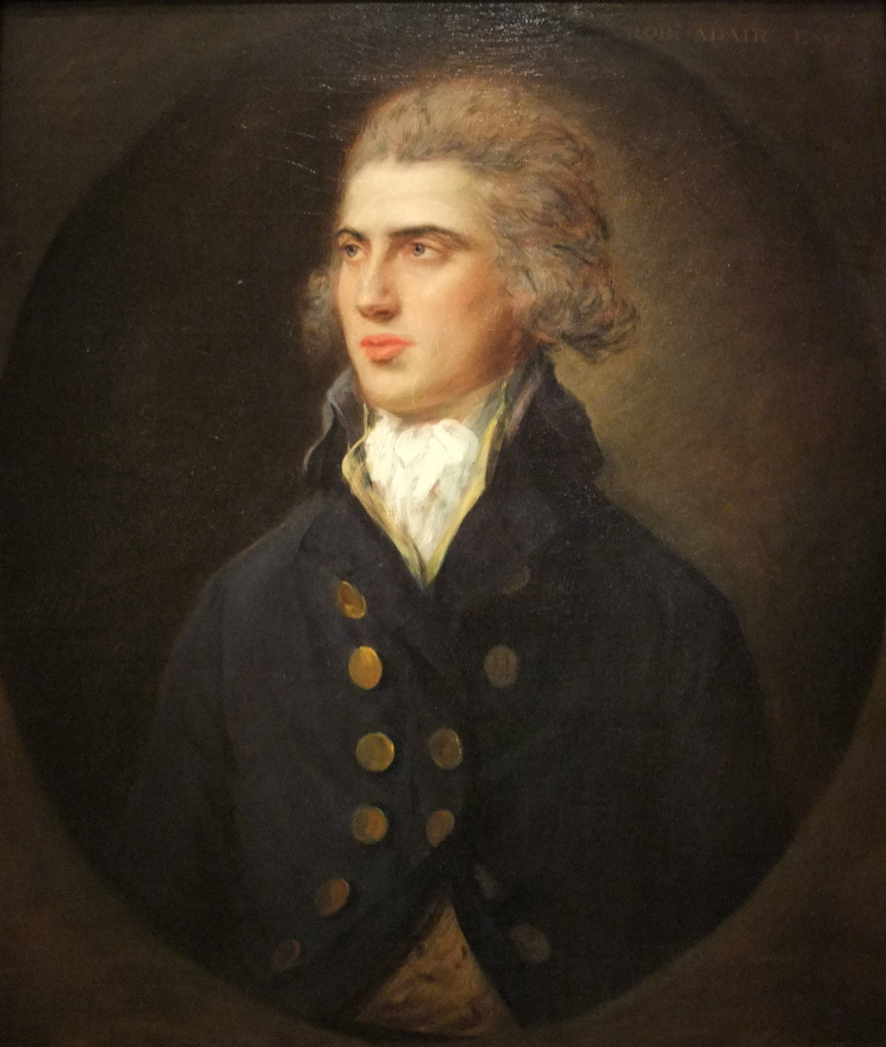 A portrait of Robert Adair by Thomas Gainsborough c. 1785. Its an oil on canvas painting.